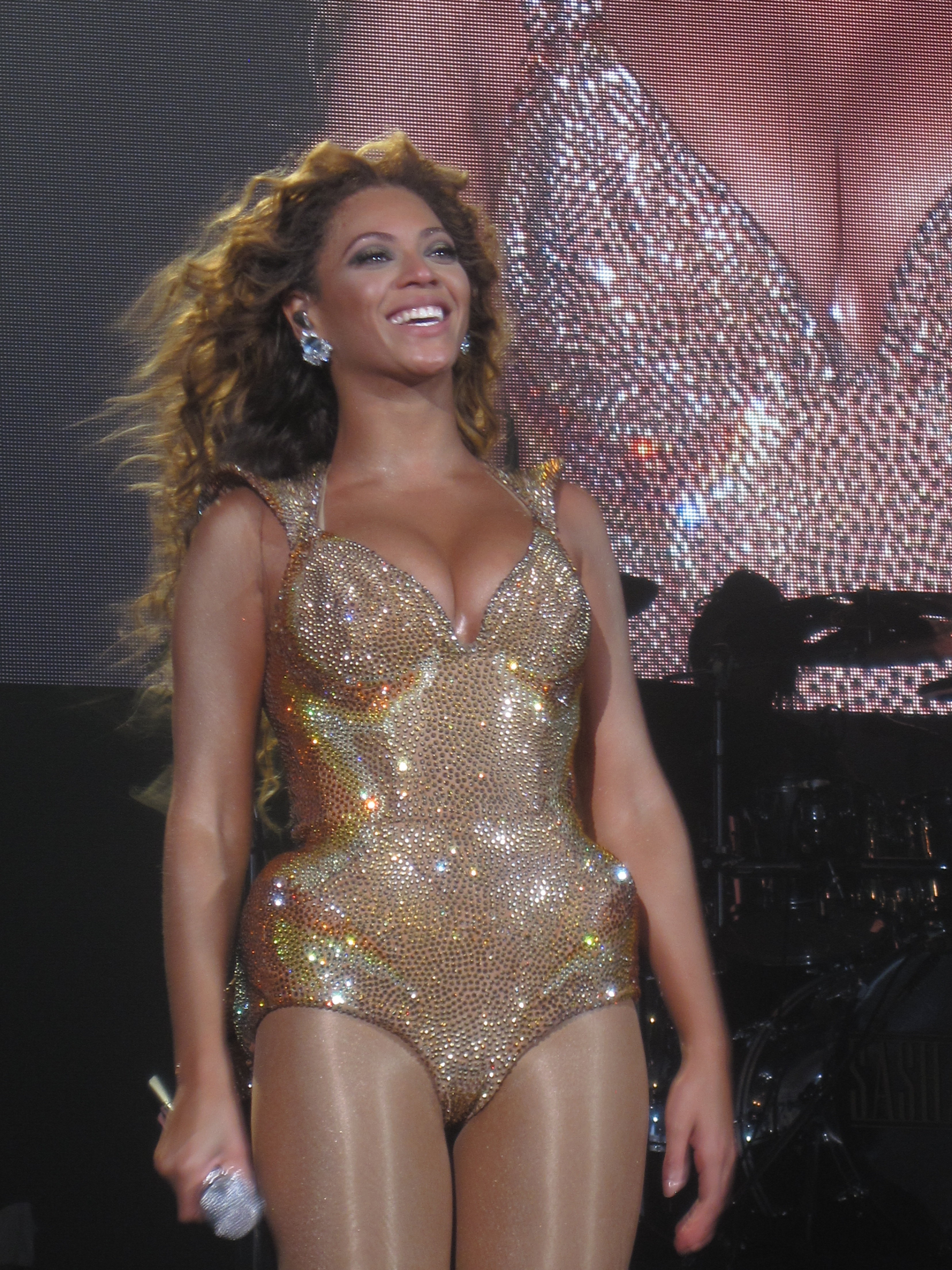 Beyoncé performing on The O2 in London.